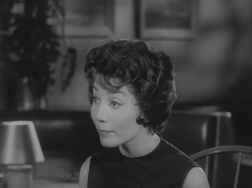 Profile image of actress Jackie Joseph, in the public domain film The Little Shop of Horrors.